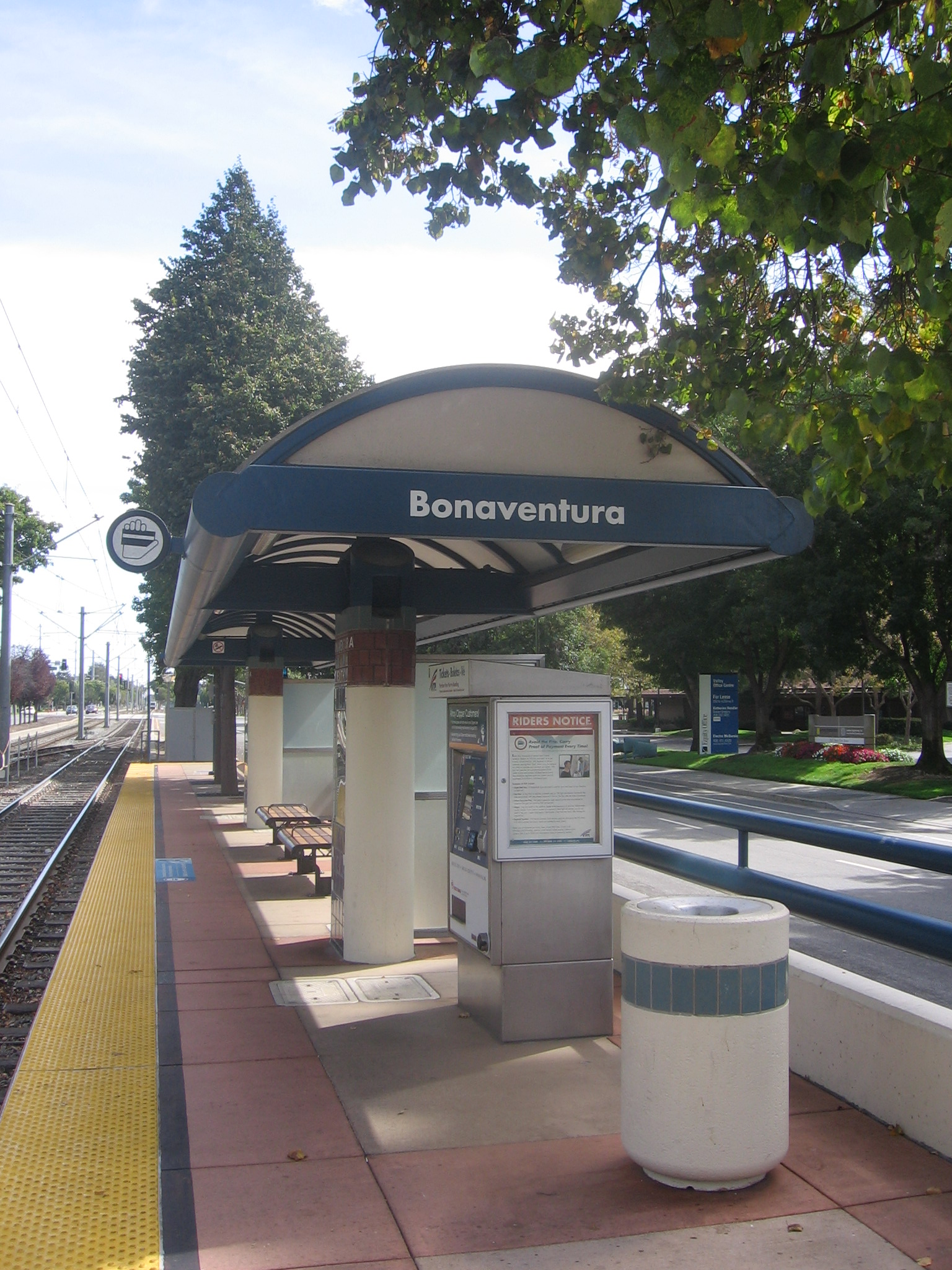 The Bonaventura (VTA) light rail station in San José, California, USA.